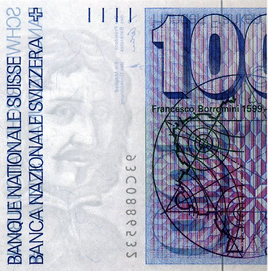 Some security features (watermark and metal thread) of the old 100 Swiss francs banknote